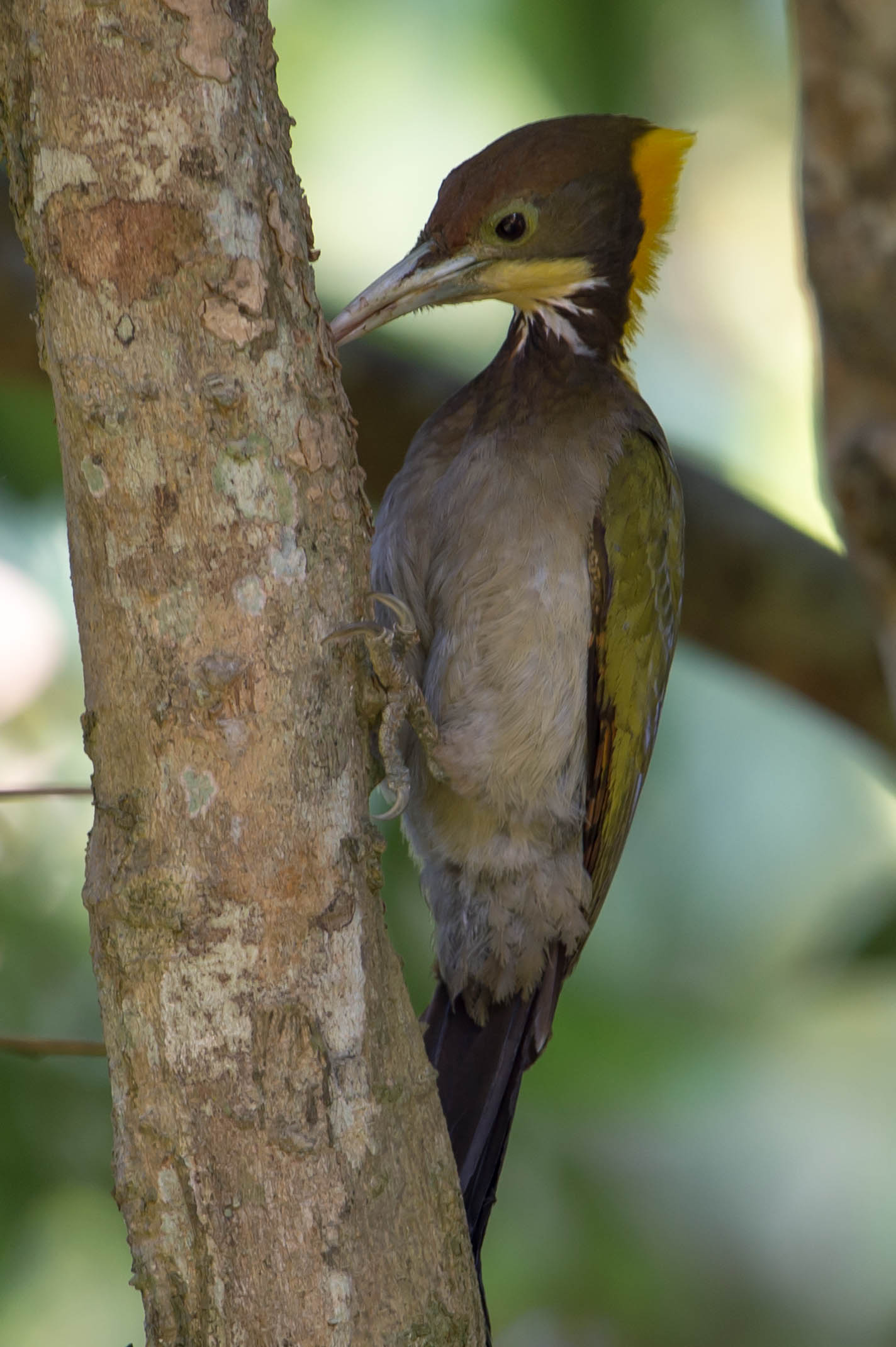 Greater Yellownape (Picus flavinucha) at Kaeng Krachan, Phetchaburi, Thailand